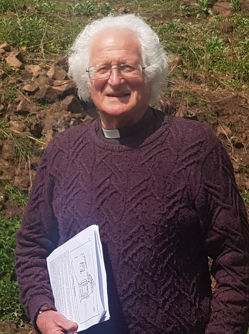 Reverend Professor Martin Henig at the entrance to the hilltop enclosure of Lydney Roman temple, 28 April 2019.